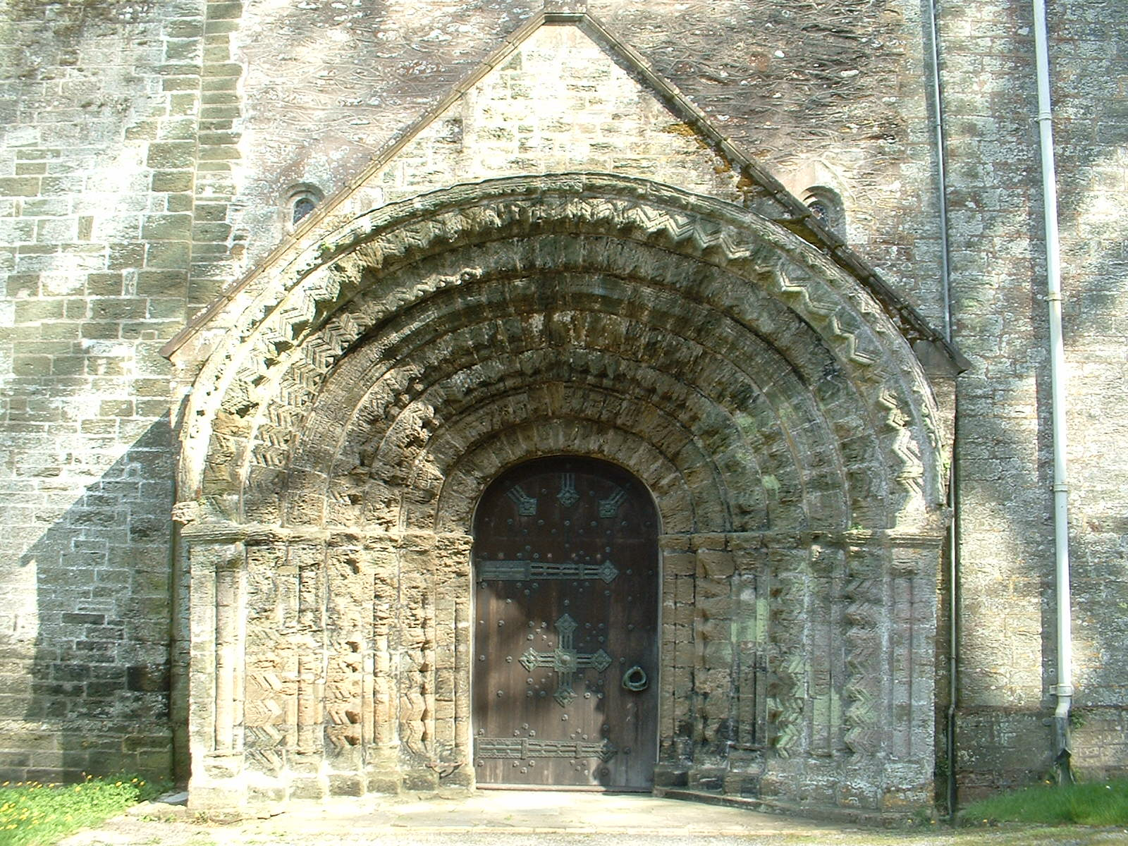 The west door of St German's Priory, Cornwall, regarded as one of the finest Norman doorways in England. Taken by Necrothesp, 19 April 2006.